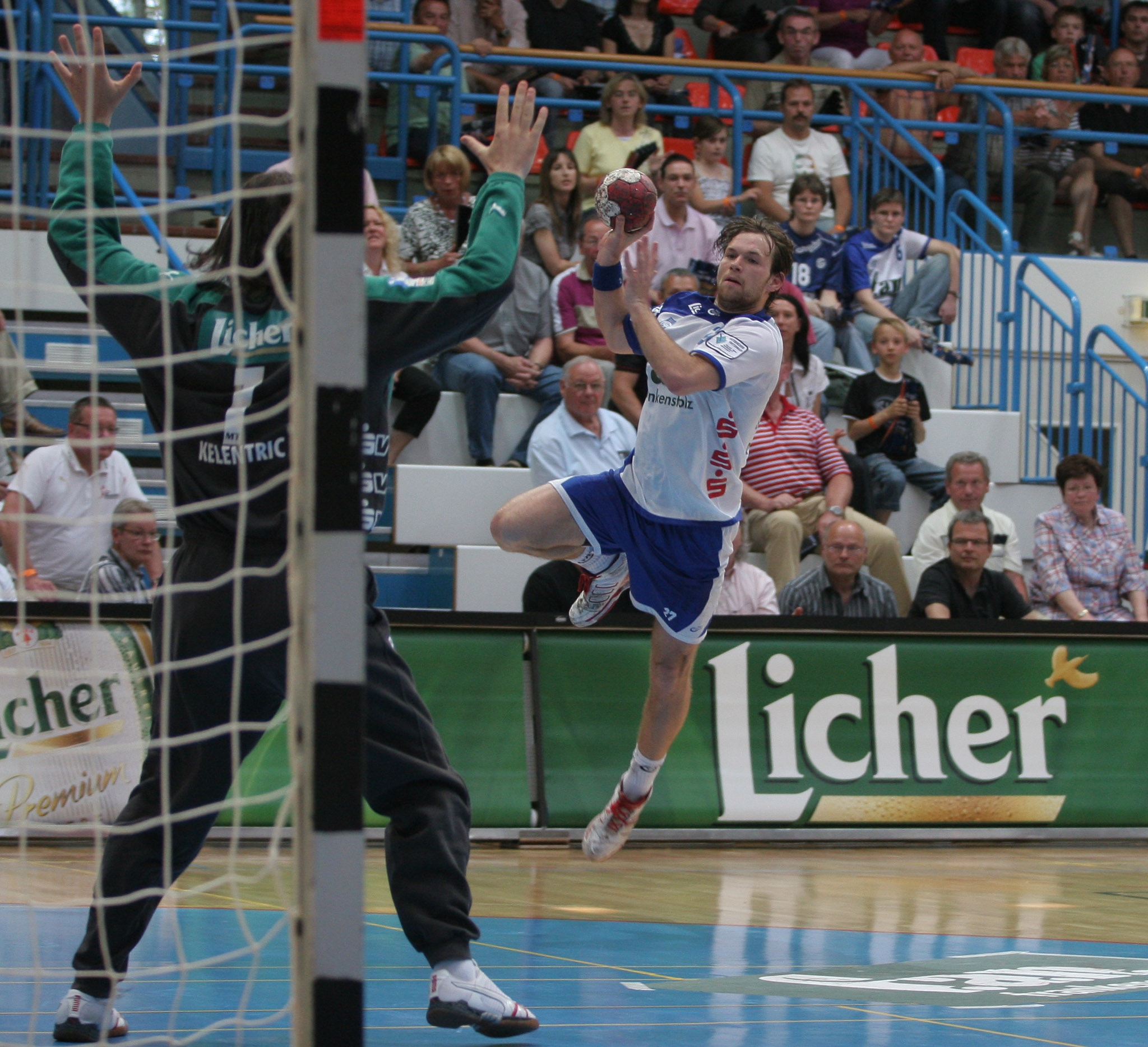 Gregor Schmeisser, handball player from Germany, playing for TV Großwallstadt, on May 23rd 2009 in Aschaffenburg (Germany) during the game TV Großwallstadt vers. MT Melsungen.